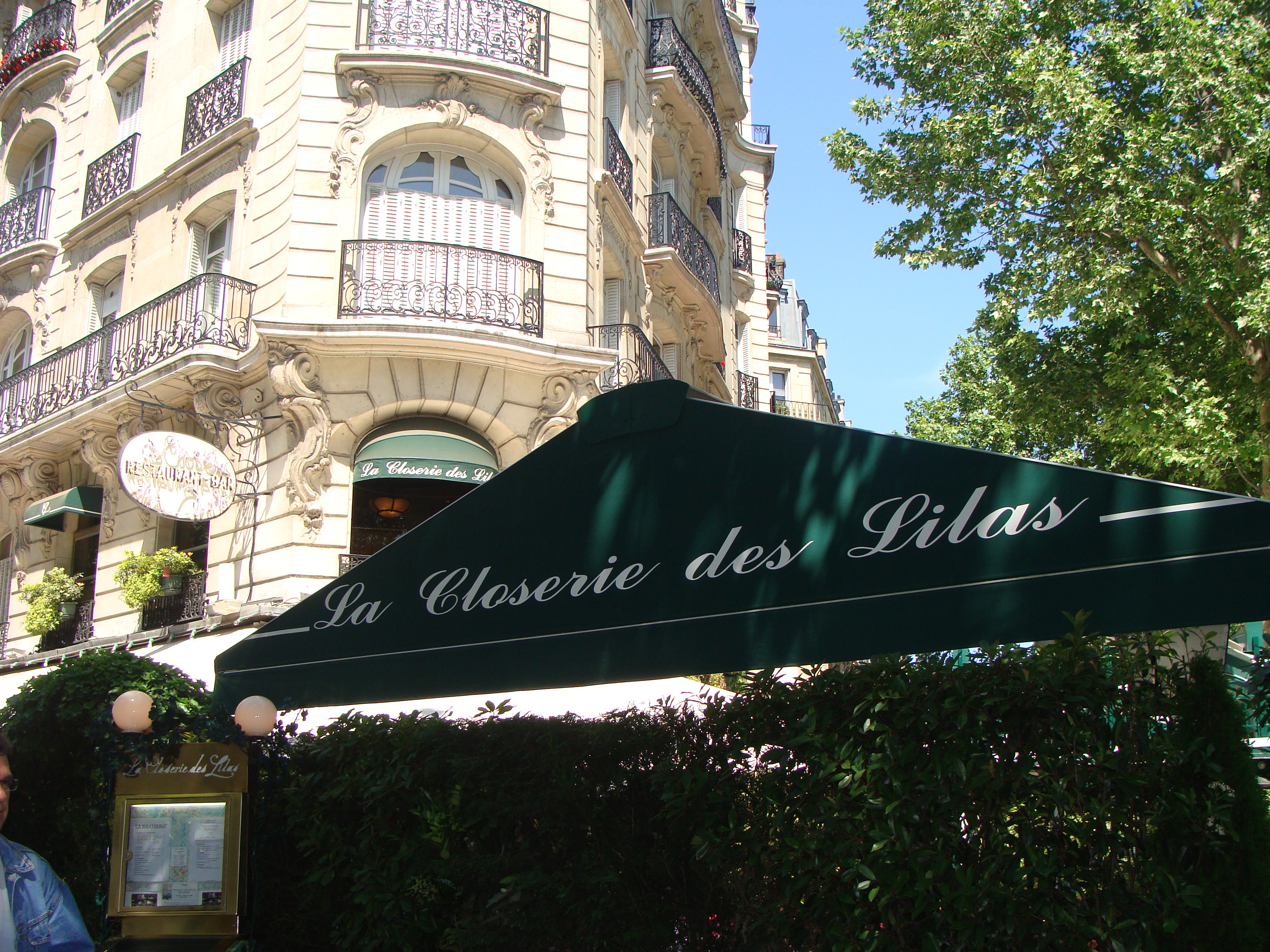 La Closerie des Lilas, Paris